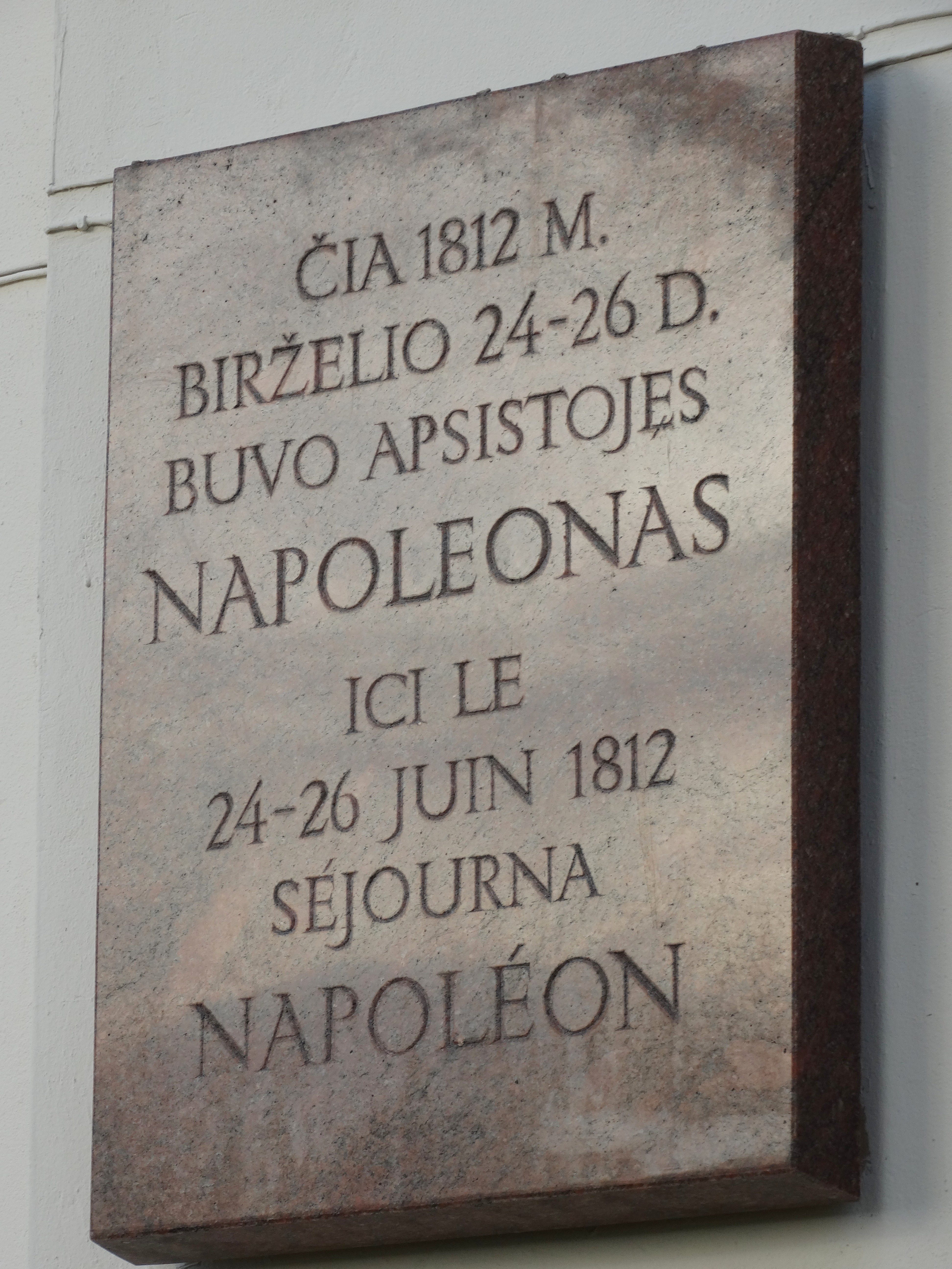 Commemorative plaque about Napoleon's stay in Kaunas, Lithuania